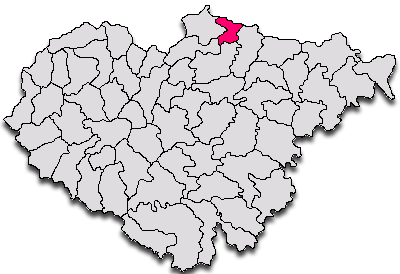 Map Salaj County Romania